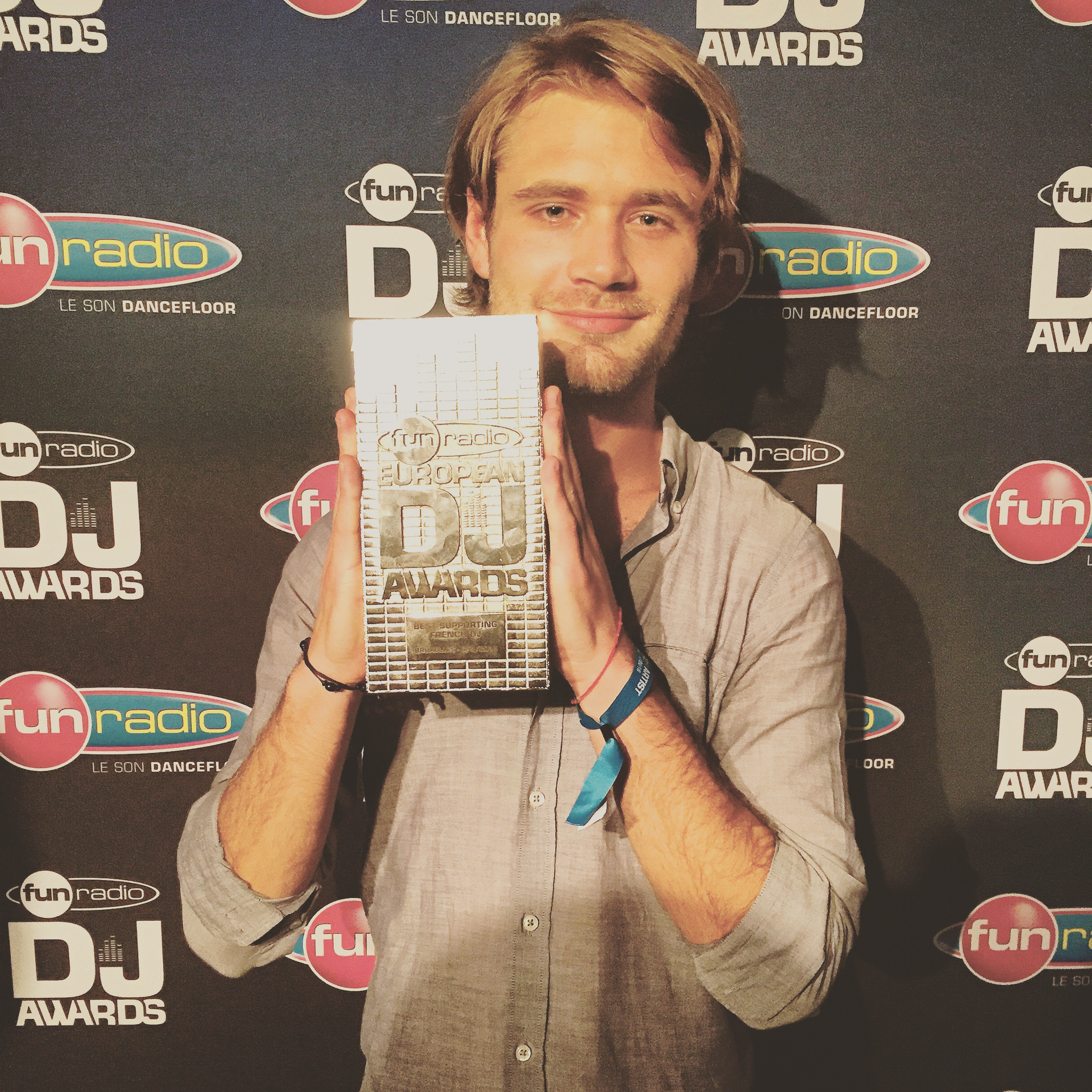 Michael Calfan winner of a award at Fun Dj Awards